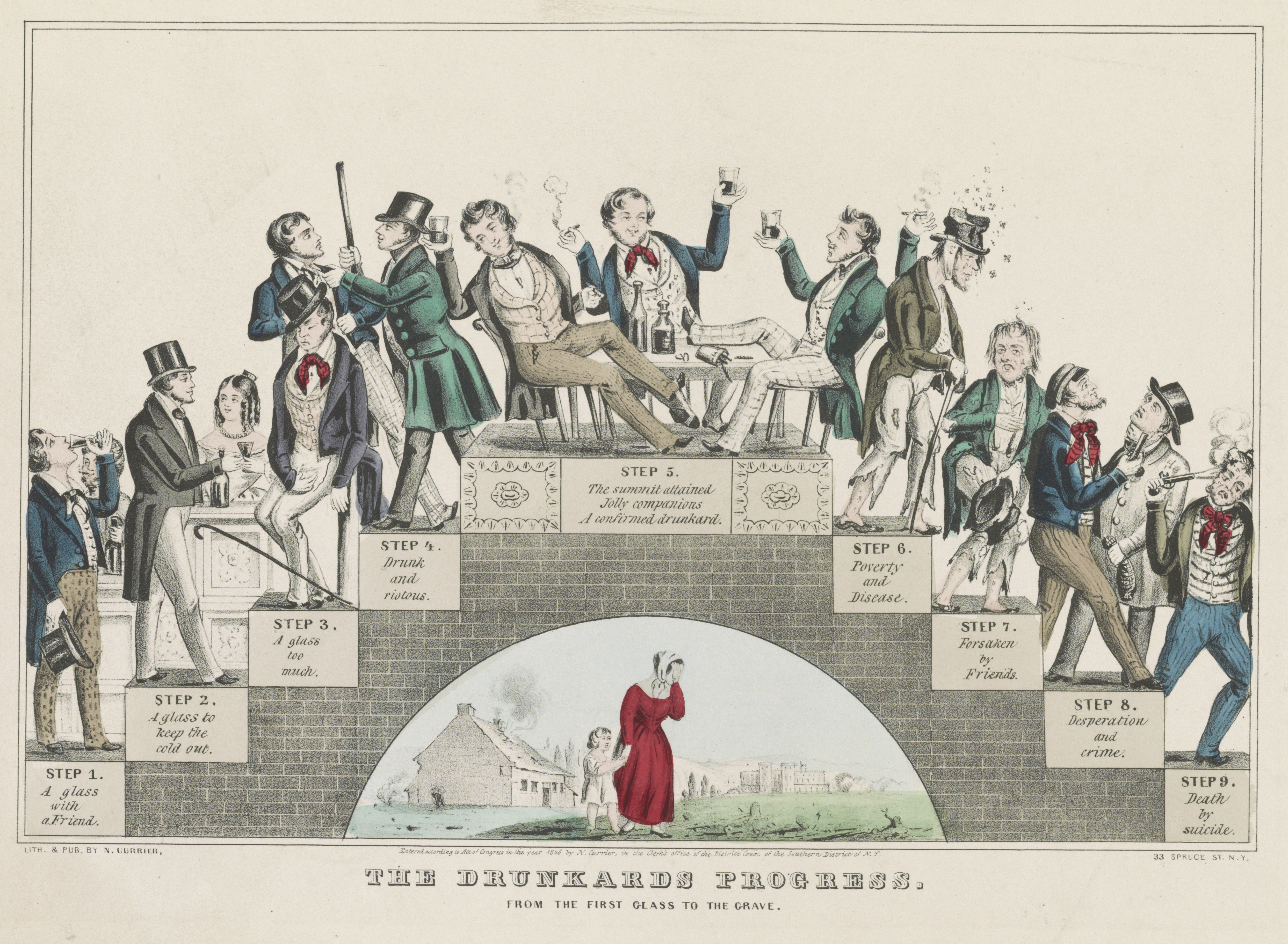 The Drunkard’s Progress Step 1. A glass with a friend. Step 2. A glass to keep the cold out. Step 3. A glass too much. Step 4. Drunk and riotous. Step 5. The summit attained. Jolly companions. A confirmed drunkard. Step 6. Poverty and disease. Step 7. Forsaken by Friends. Step 8. Desperation and crime. Step 9. Death by suicide.